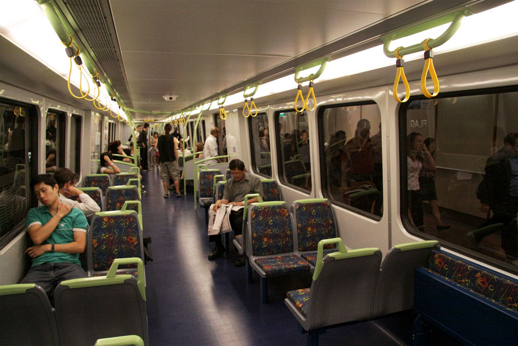 Interior of the 2nd order X'Trapolis 100 trains operated by Metro Trains Melbourne. 4M, with 2+2 seating and different handholds.